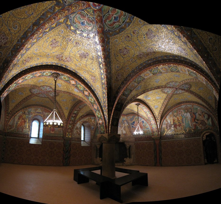 The Elizabeth Bower, Wartburg. 17th century "Miss Elizabeth Fireplace Room" with 20th century mosaics, depicting scenes of the life of Saint Elizabeth.